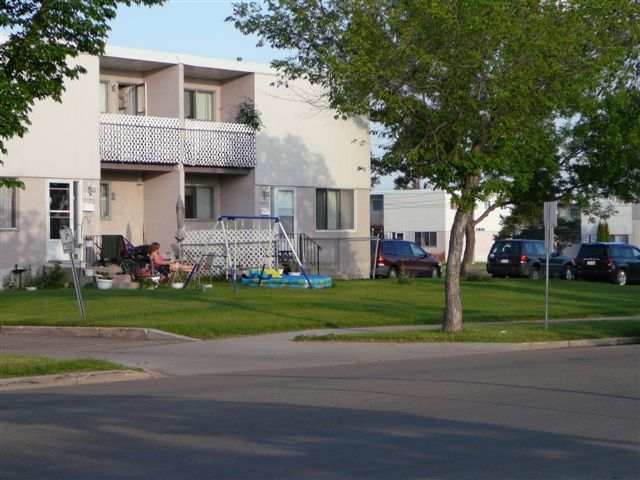 I took this picture myself on June 21, 2007